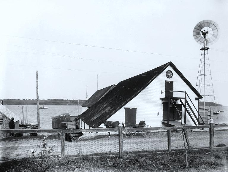 Photograph, Robin Jones Whitman fishing plant, Chéticamp, Cape Breton, NS, about 1914, Wm. Notman & Son, Silver salts on glass - Gelatin dry plate process - 20 x 25 cm